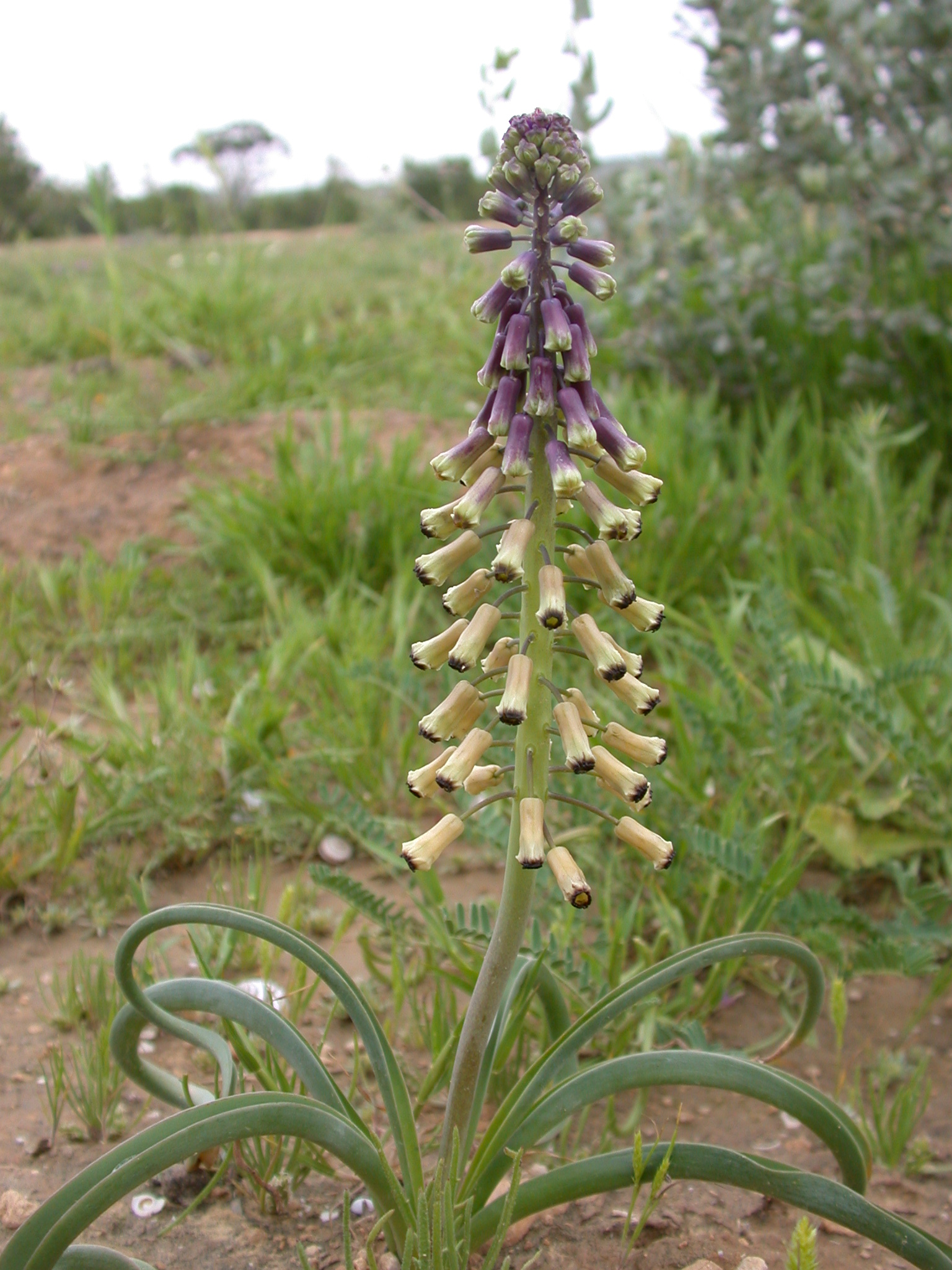 Leopoldia longipes (Boiss.) Losnik. subsp. longipes (מצילות ארוכות-עוקץ, תת-מין ארוכות-עוקץ), Northern Negev, Israel, March 16, 2007. Other names: Muscari longipes Boiss.